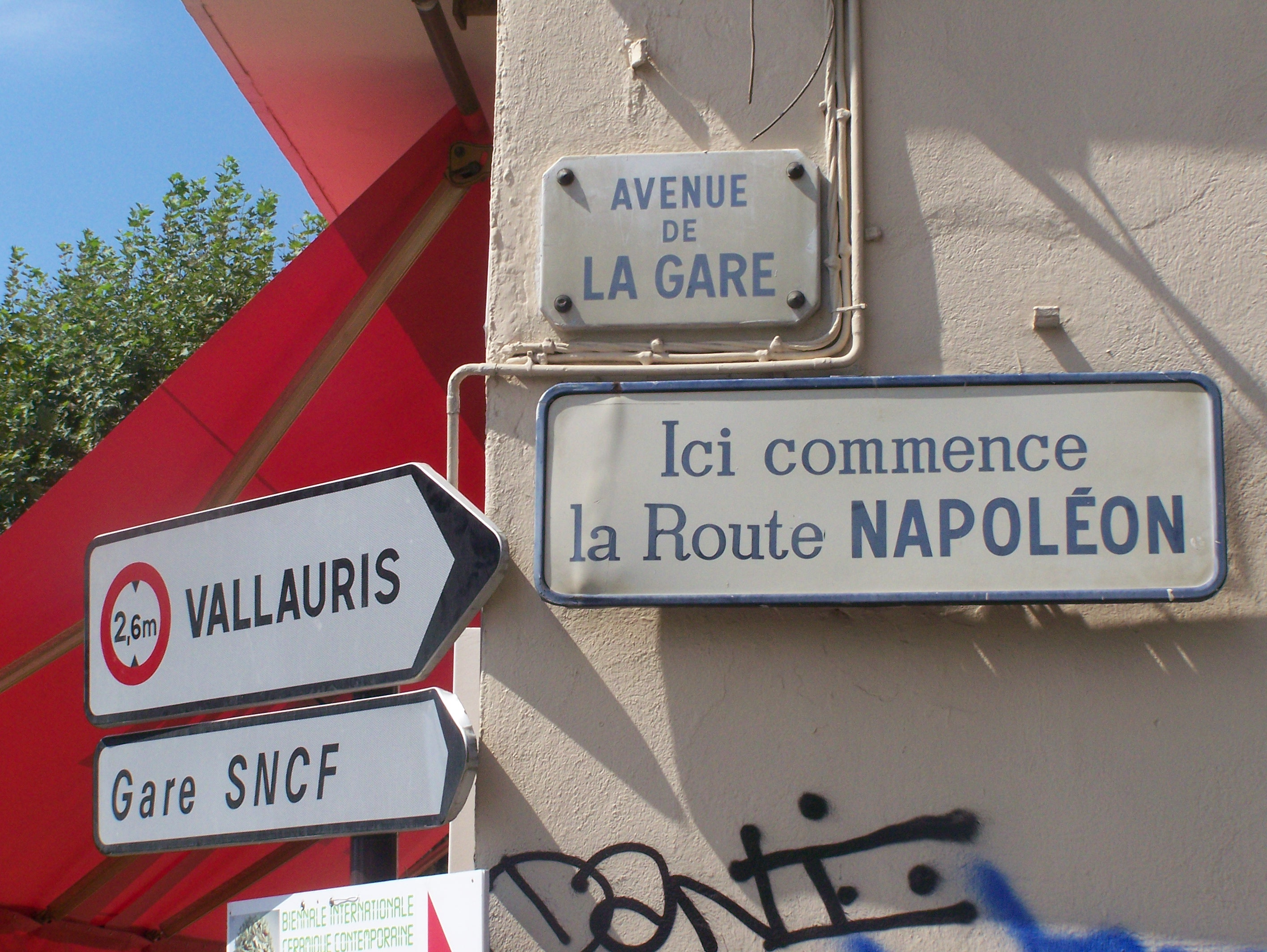 Roadsign mentionning the very beginning of the Route Napoléon here in Golfe Juan in Alpes-Maritimes, France.